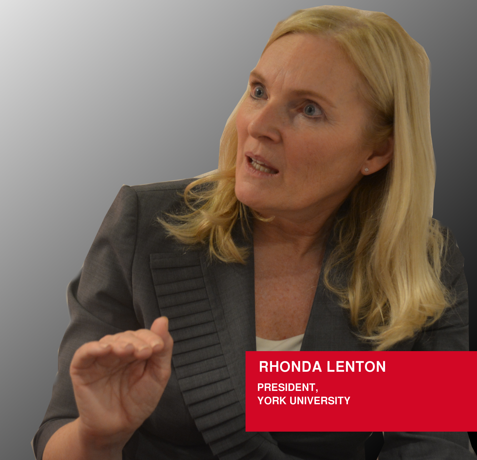 An edited picture of Rhonda Lenton as York University's president